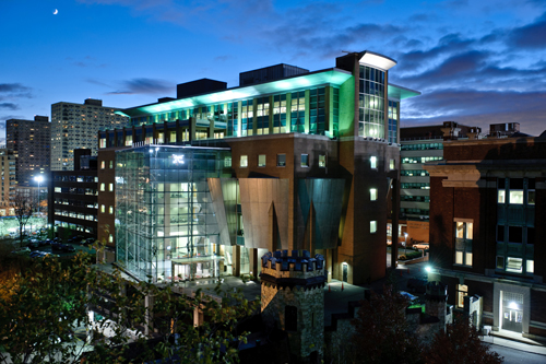 The Babbio Center at Stevens Institute of Technology, lit up at night